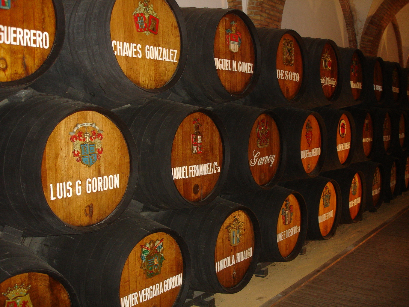 Sherry barrels